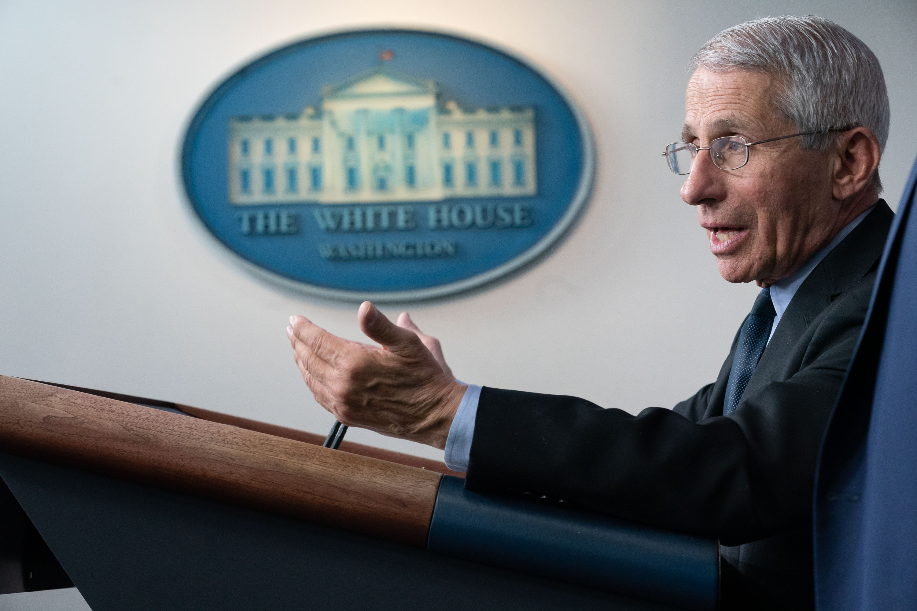 Dr. Anthony S. Fauci, director of the National Institute of Allergy and Infectious Diseases and a member of the White House Coronavirus Taskforce, addresses his remarks at a coronavirus update briefing Monday, March 16, 2020, in the James S. Brady Press Briefing Room of the White House. (Official White House Photo by D. Myles Cullen)